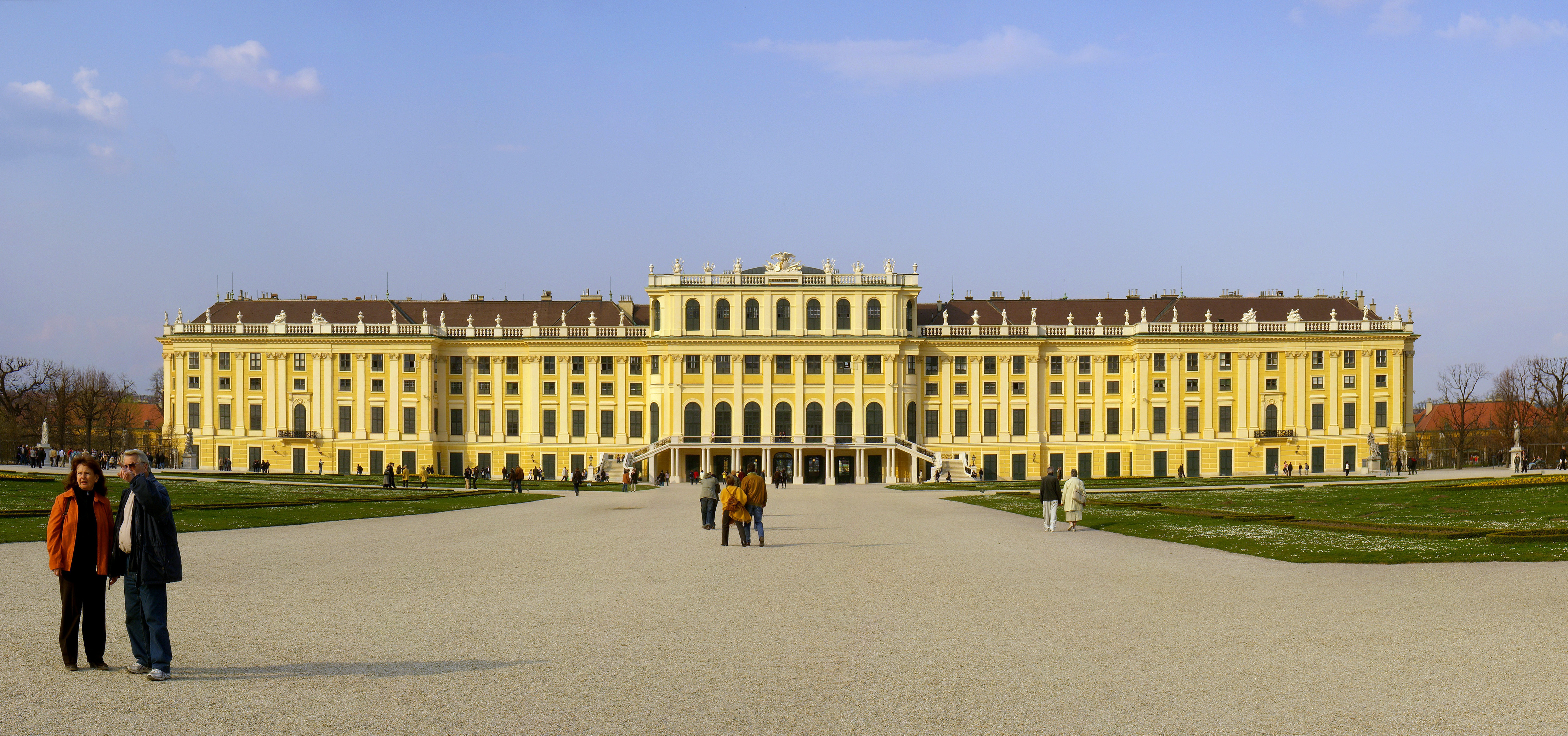 Austria, Vienna, Schönbrunn Palace